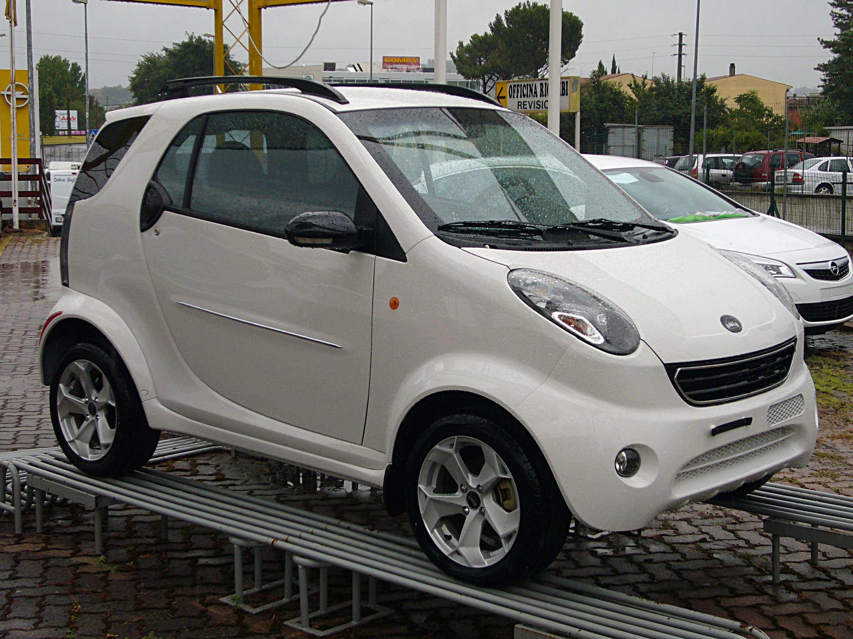 Shuanghuan Bubble (Martin Motors/Shuanghuan Noble) in Montevarchi, Tuscany, Italy